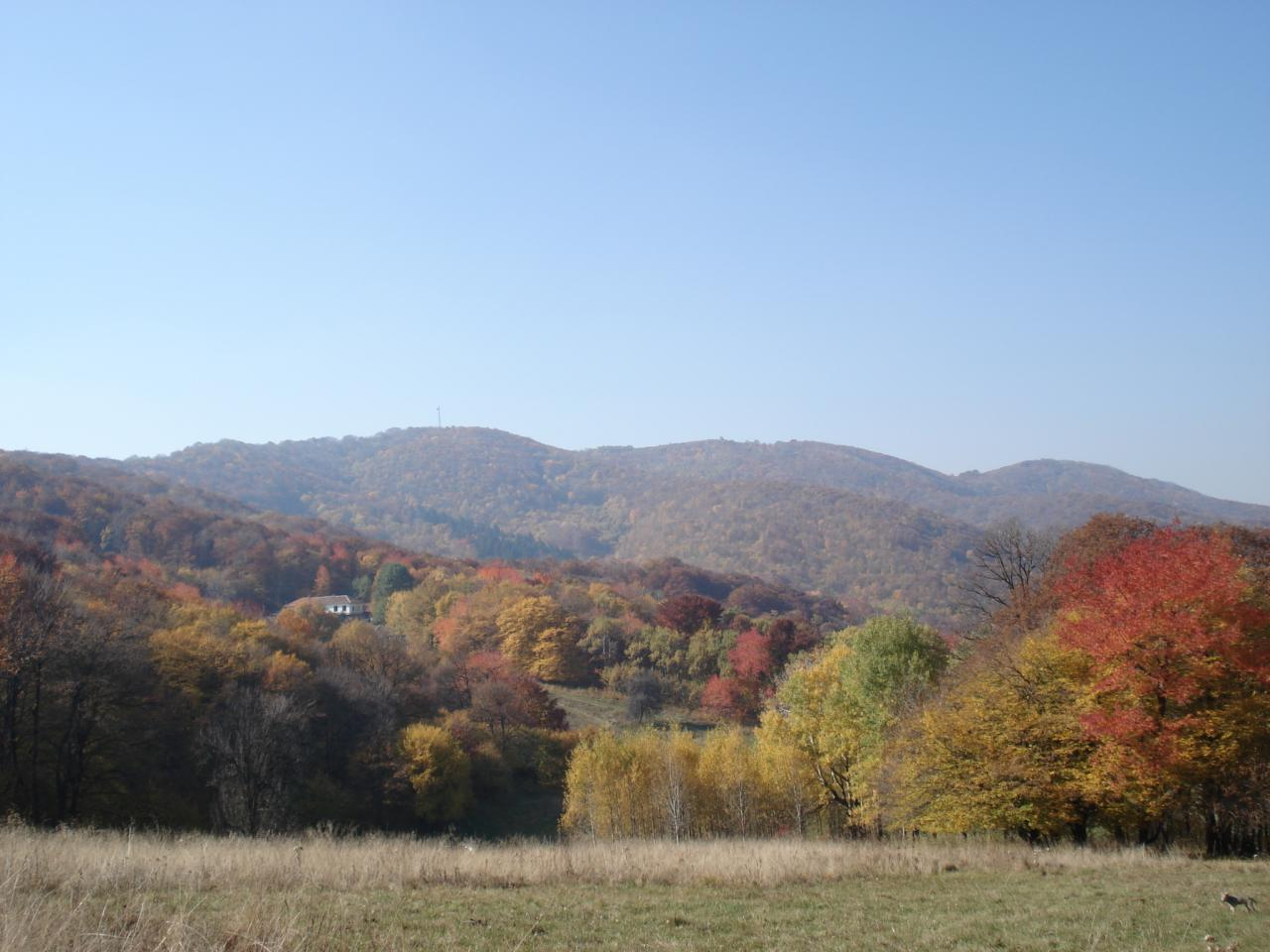 Autumn landscape in Lyulin mountain, Bulgaria